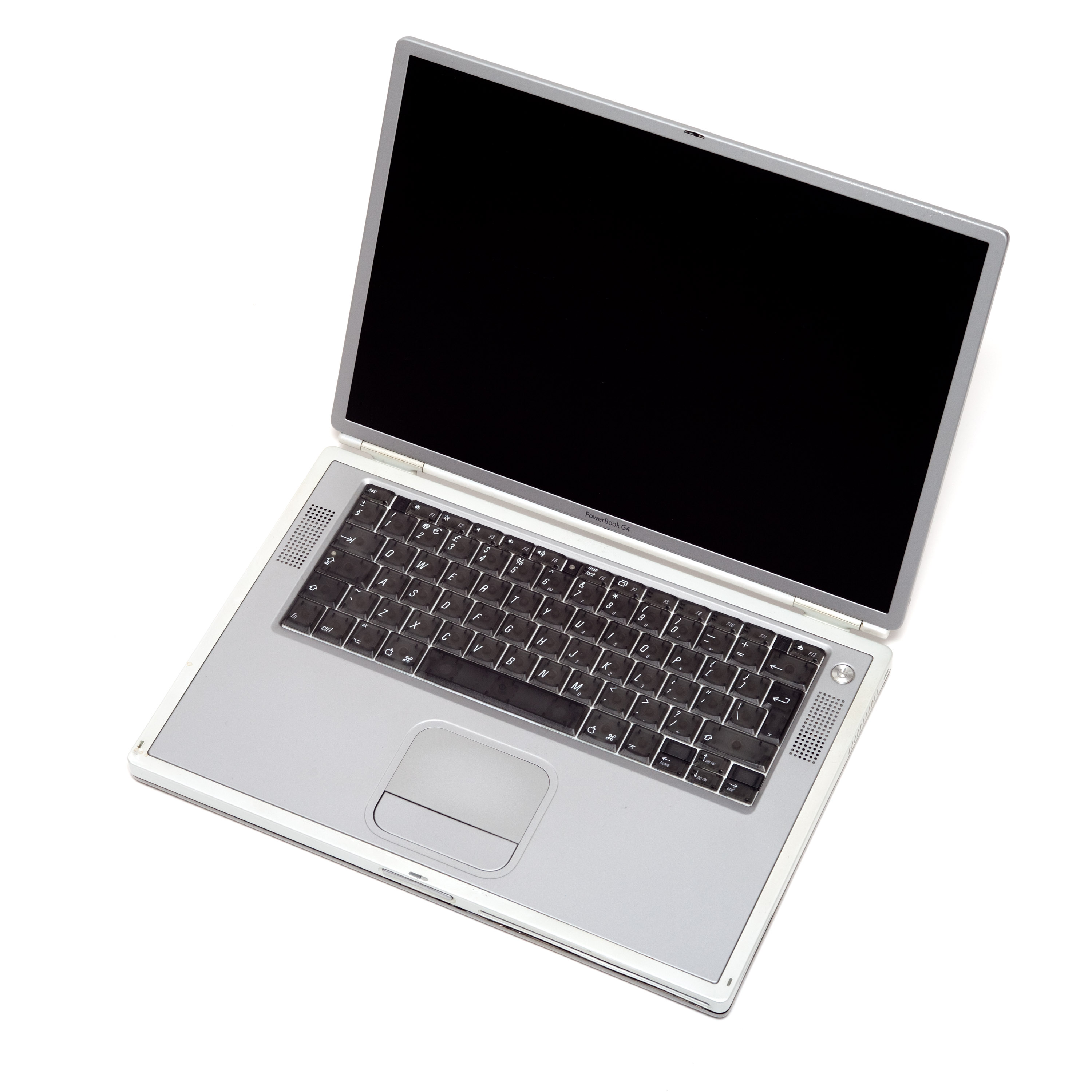 A 1ghz Titanium Apple PowerBook G4.